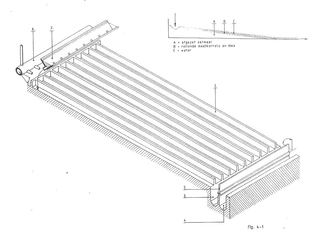 Equipment used in the past by potato starch producers for washing and dewatering potato starch